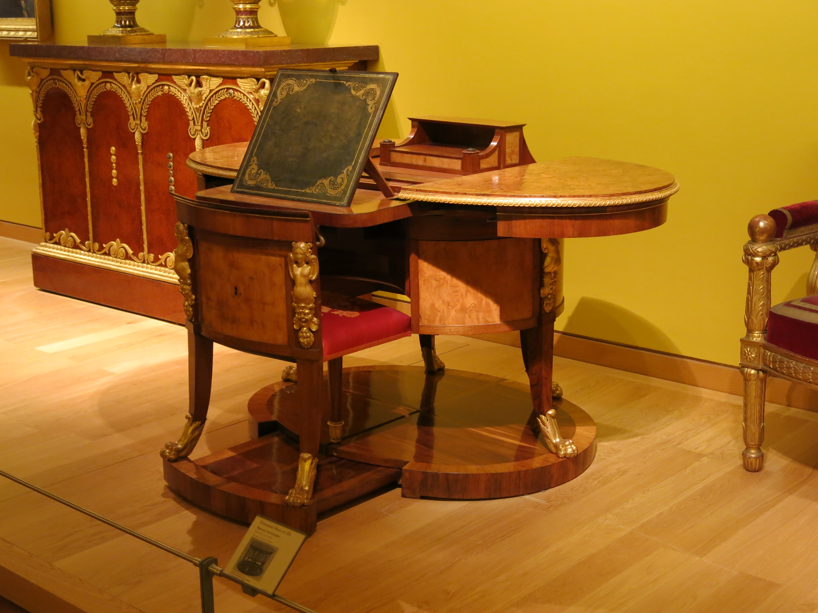 Mechanical desk. Giovanni Socci and son. Mahogany and elm root. Florence around 1820.